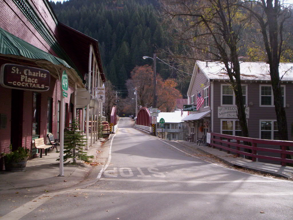 Jersey Bridge, Highway 49, and the town of Downieville, California. Taken at the historic St. Charles Place. The bridge is on the National Register of Historic Places in Sierra County.